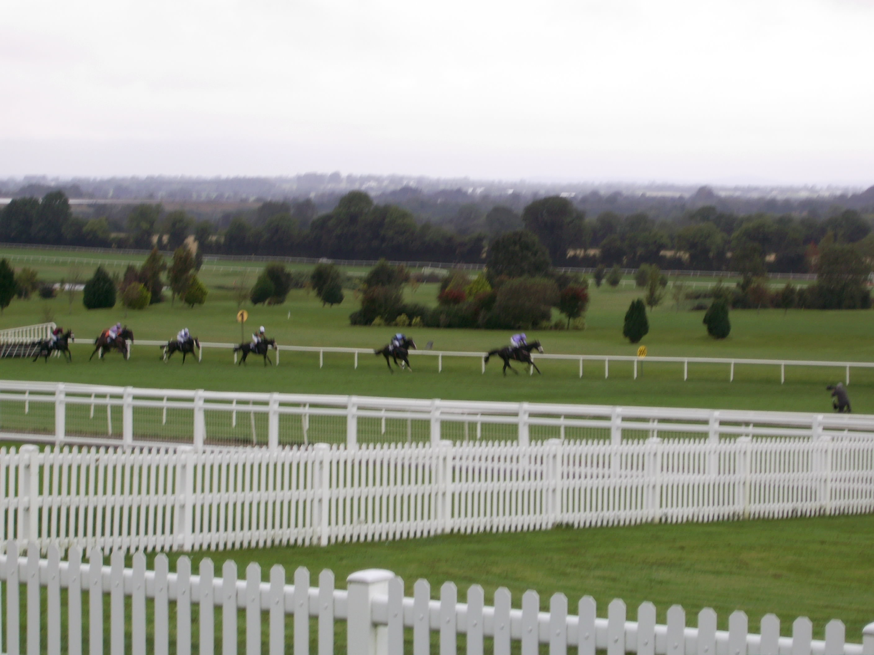 Cources a Navan